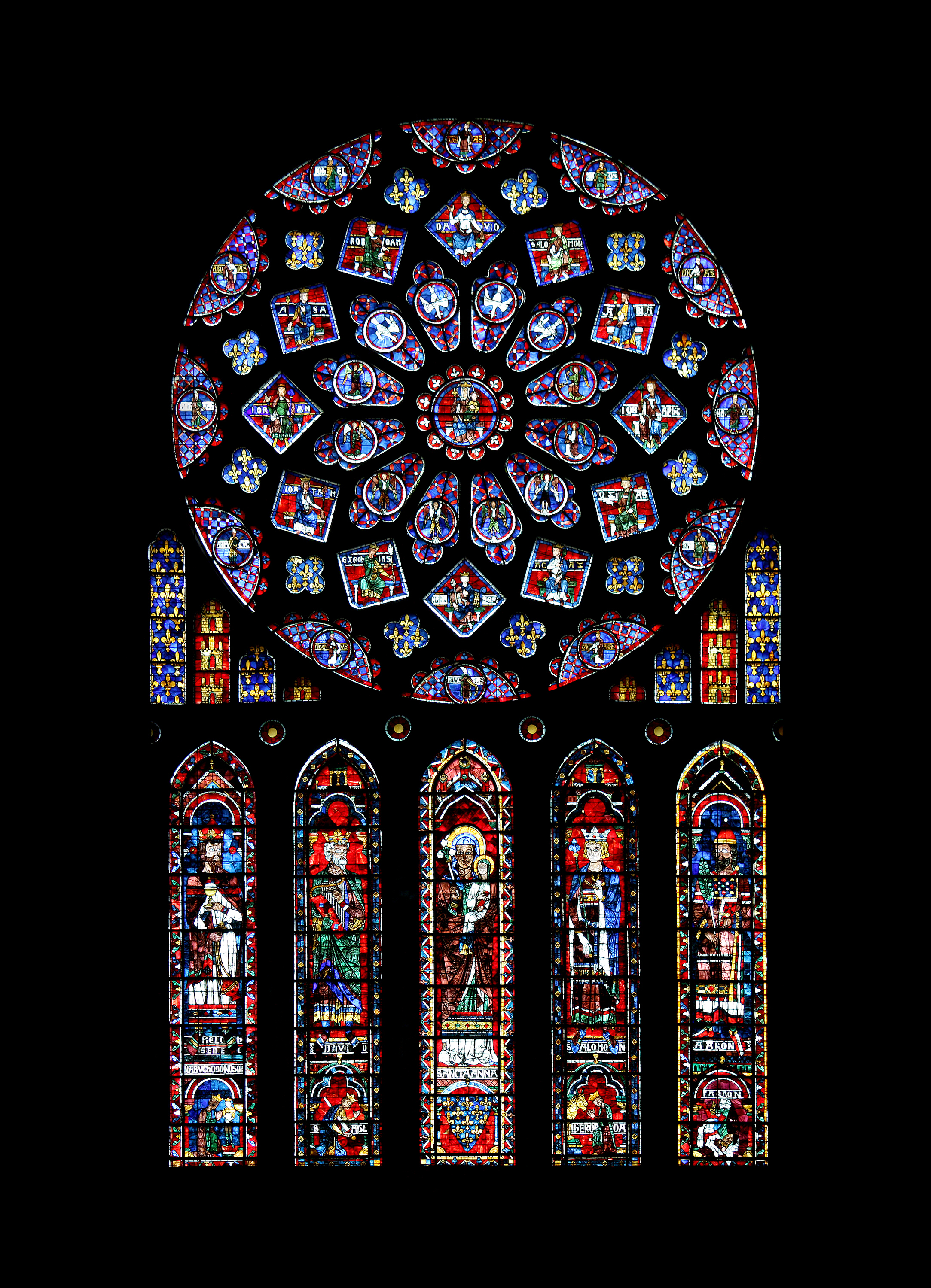 Northern rose window of Chartres cathedral. The rose depicts the Glorification of the Virgin Mary, surrounded by angels, twelve kings of Juda (David, Solomon, Abijam, Jehoshaphat, Uzziah, Ahaz, Manasseh, Hezechiah, Jehoiakim, Jehoram, Asa et Rehoboam) and the twelve lesser prophets (Hosea, Amos, Jonah, Nahum, Zephaniah, Zechariah, Malachi, Haggai, Habakkuk, Micah, Obadiah and Joel). Below, the arms of France and Castile (the window was offered by Blanche of Castile). The five lancets represent Saint Anne, mother of the Virgin, surrounded by the kings Melchizedek, David, Solomon and by Aaron, treading the sinner and idolatrous kings: Nebuchadnezzar, Saul, Jeroboam and Pharaoh.